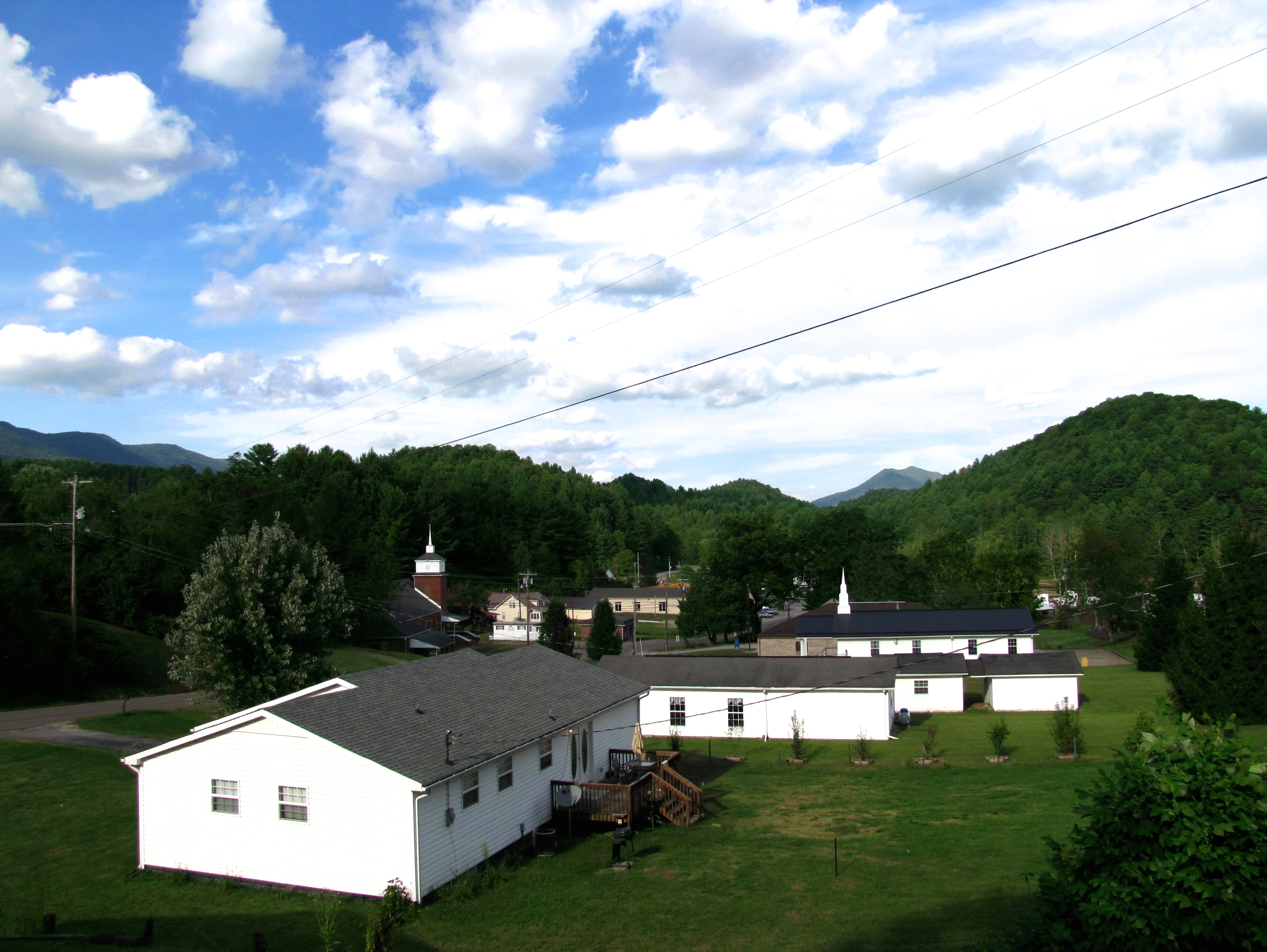 Houses and other buildings in Butler, Tennessee, United States.